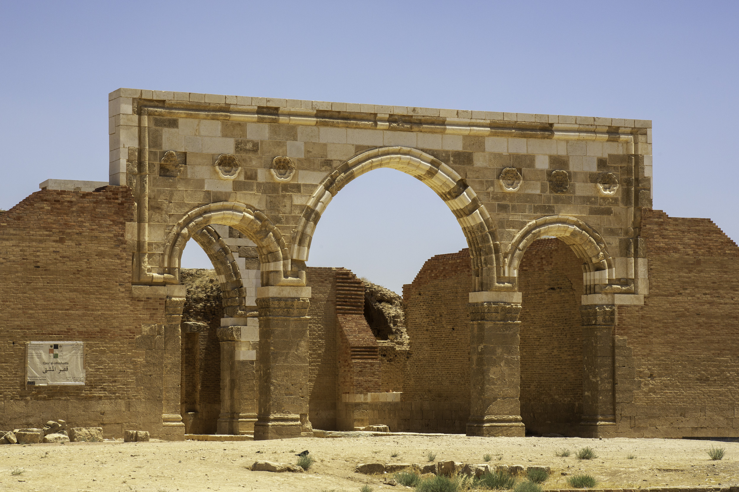 Qasr Al-Mshatta (Remains of the Facade)